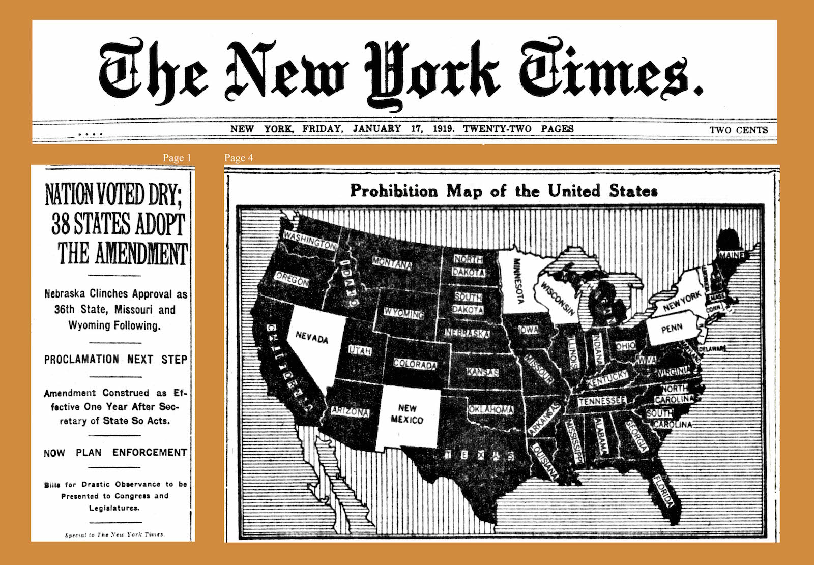 Front page headlines, and map representing states ratifying Prohibition Amendment (Eighteenth Amendment to the United States Constitution), as reported in The New York Times on January 17, 1919.